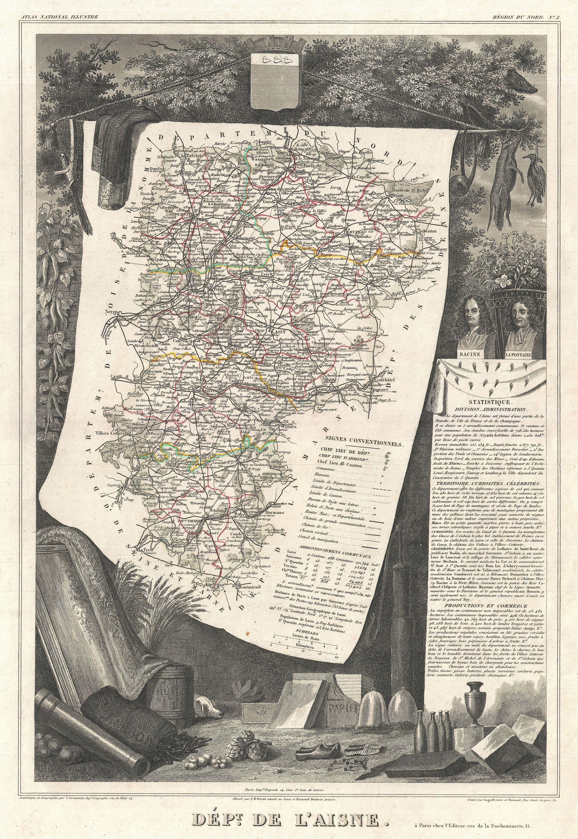 This is a fascinating 1857 map of the French department of l'Aisne, France. The whole is surrounded by elaborate decorative engravings designed to illustrate both the natural beauty and trade richness of the land. There is a short textual history of the regions depicted on both the right side of the map. Published by V. Levasseur in the 1852 edition of his Atlas National de la France Illustree.